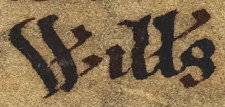 An excerpt from folio 50v of the Chronicle of Mann (Cotton MS Julius A VII). The man referred to is William, Bishop of the Isles.